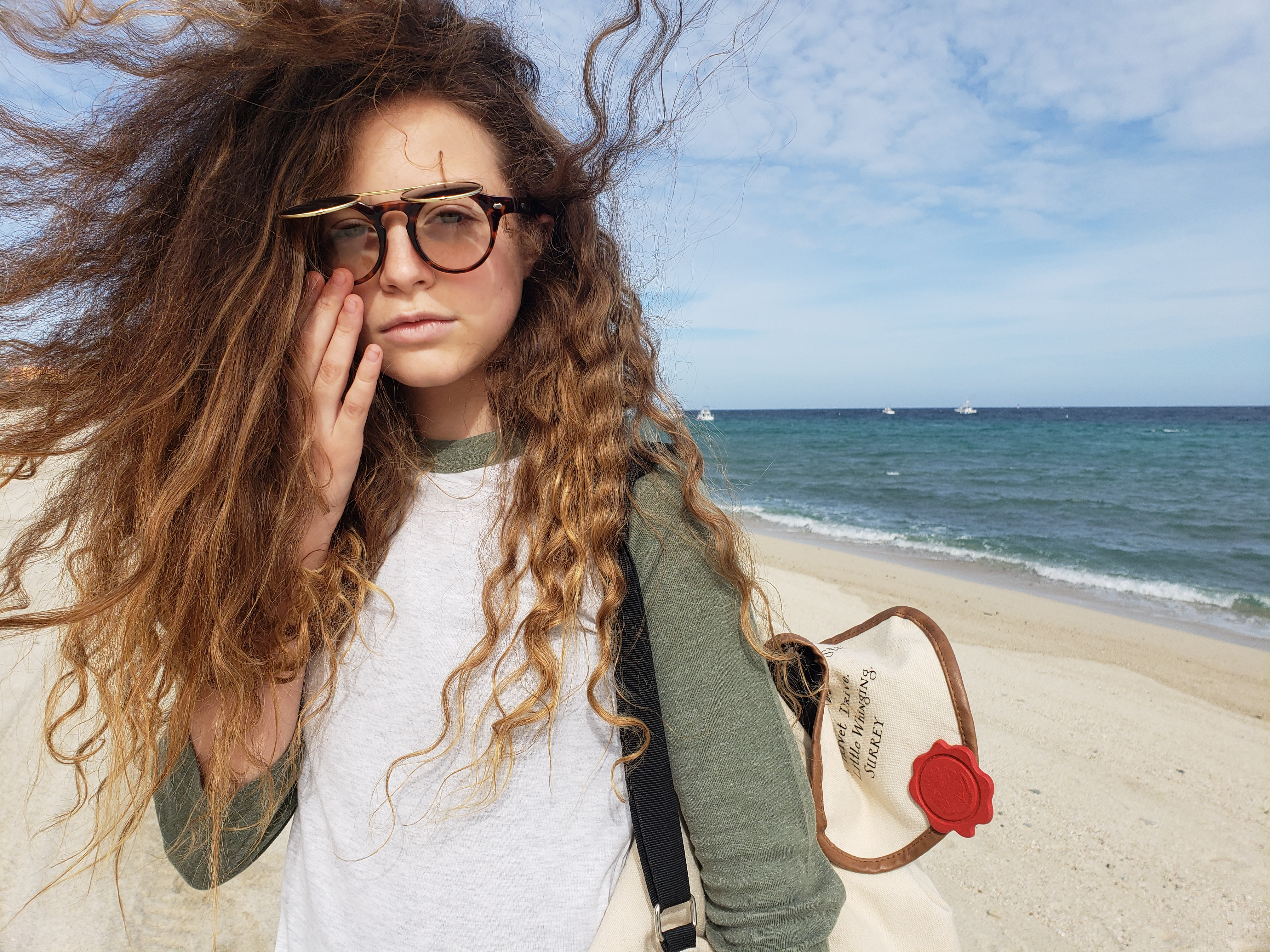 Sofia Rosinsky in Baja Sur 2019